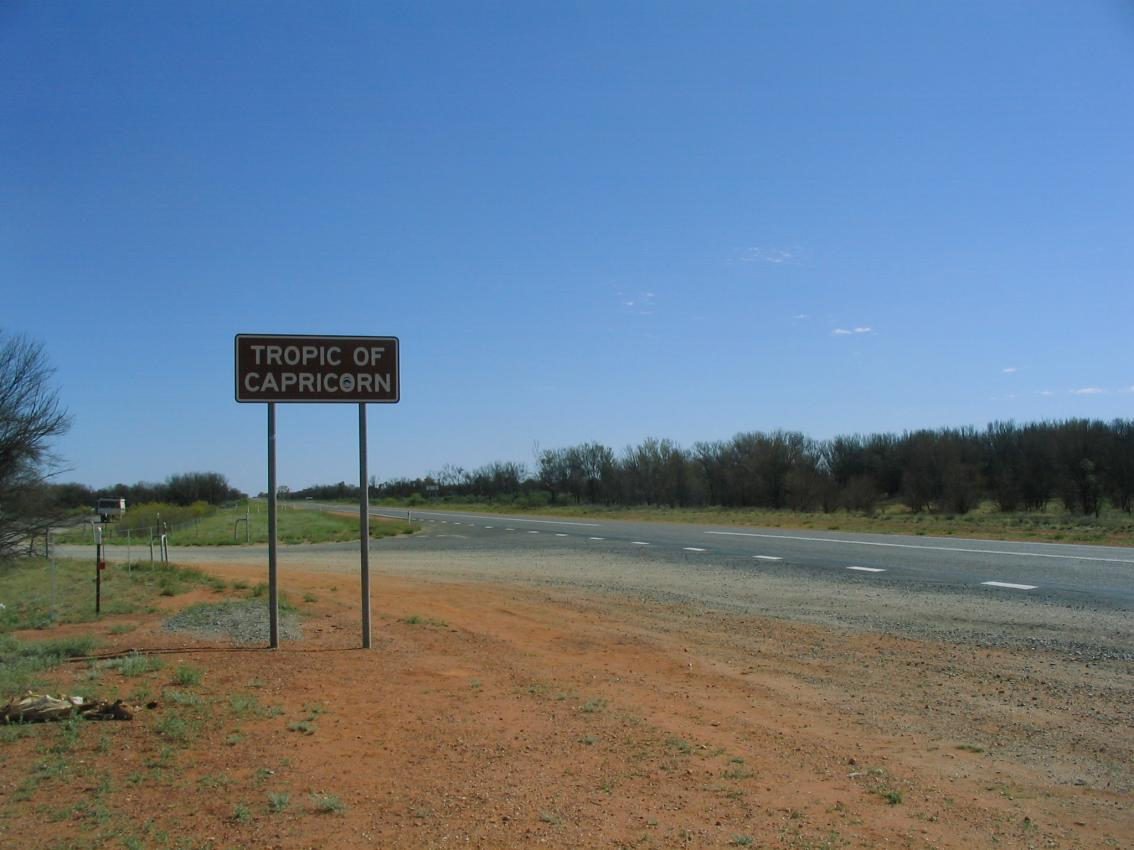 The Tropic of Capricorn in Australia. Silly photo by Muriel Gottrop.